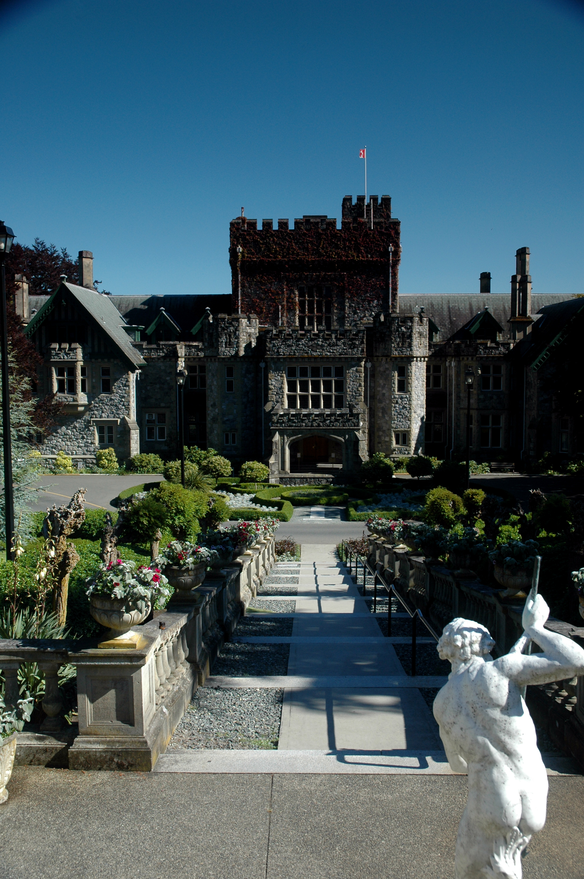 So this is Hatley Castle, which apparently is used in the filming of Smallville, a show that I have never seen.